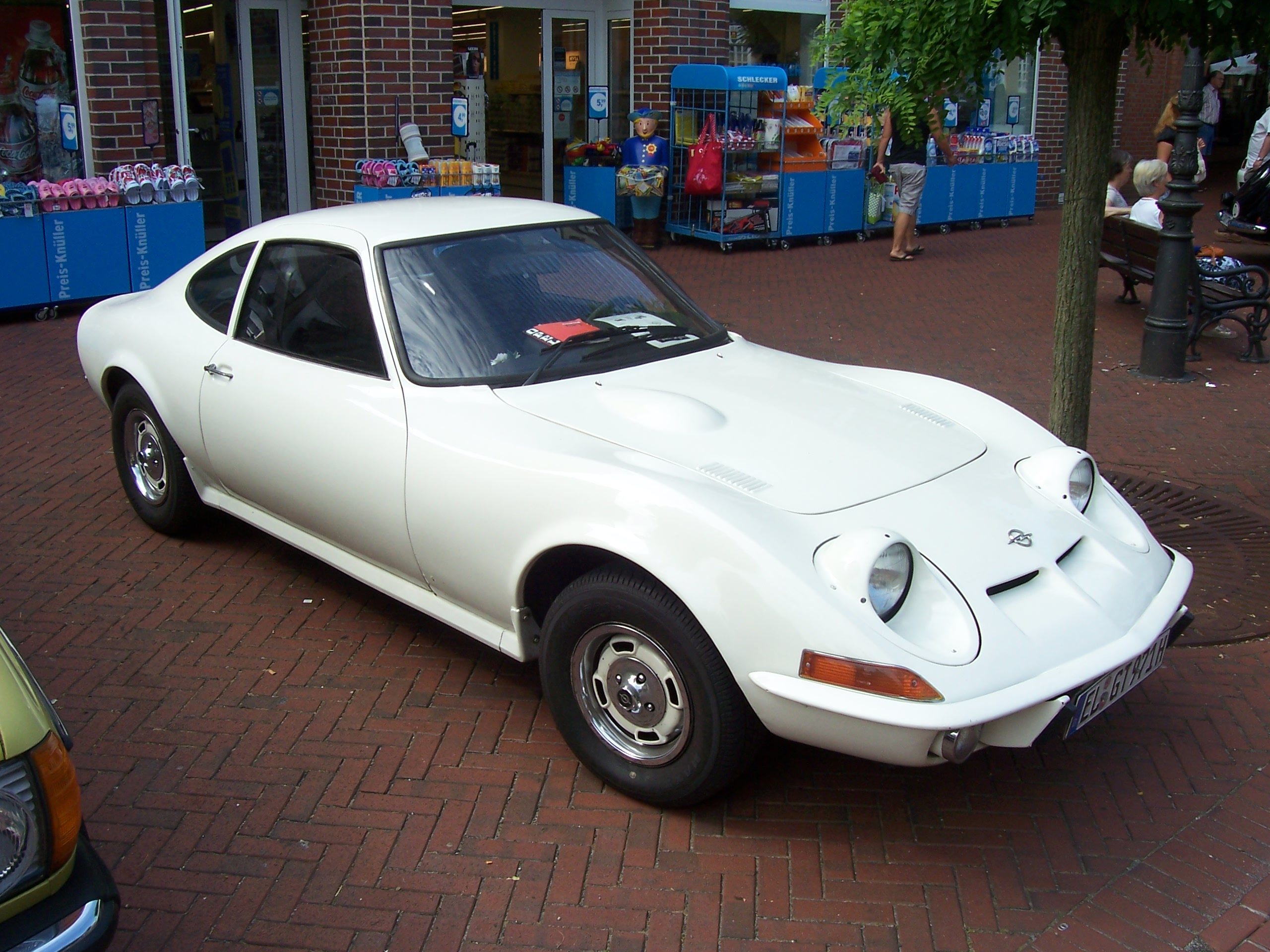 1971 Opel GT